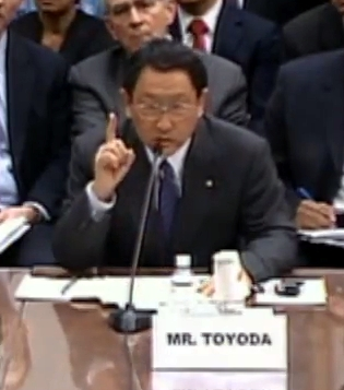 Akio Toyoda, President of Toyota Motor Corporation, spoke at the Committee on Oversight and Government Reform, the House of Representatives, in Washington, D.C. on February 24, 2010.